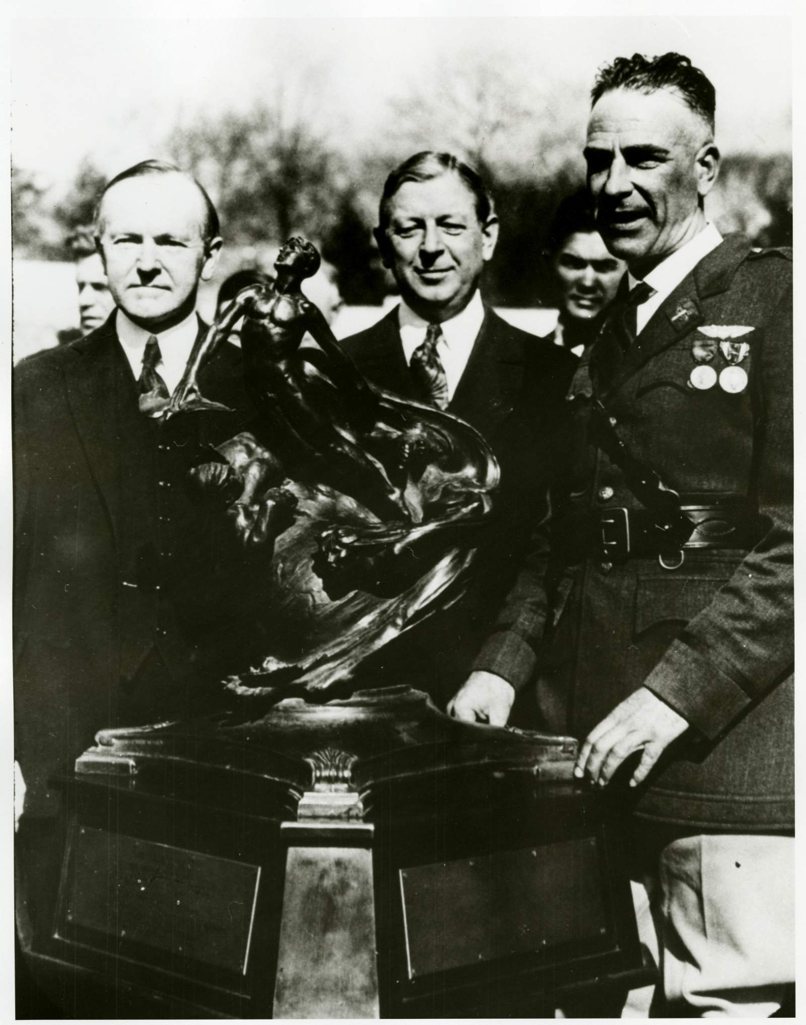 President Calvin Coolidge (left) presenting the 1926 Collier Trophy for that year's greatest achievement in American aviation to Edward L. Hoffman (right). Secretary of War Dwight Davis stands in the center.